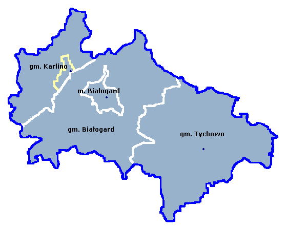 Bialogard County - administrative divisions